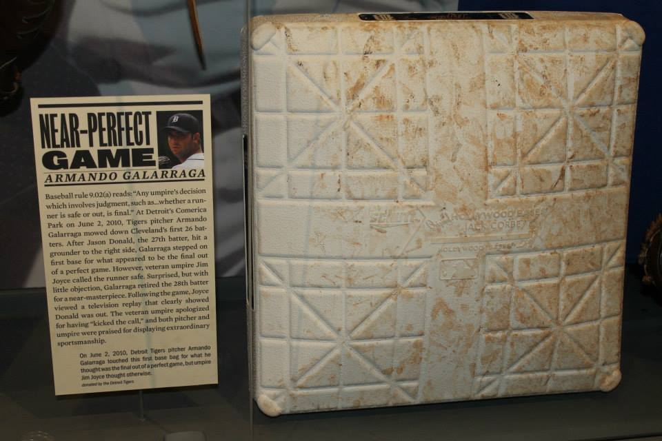 First base used at Comerica Park in Detroit, MI, on June 2, 2010. Galarraga touched the base ahead of Cleveland's Jason Donald for what was believed to be the 27th and final out of a perfect game. Donald was called safe, but video replays showed that Donald was out. Baseball Hall of Fame, Cooperstown, NY.